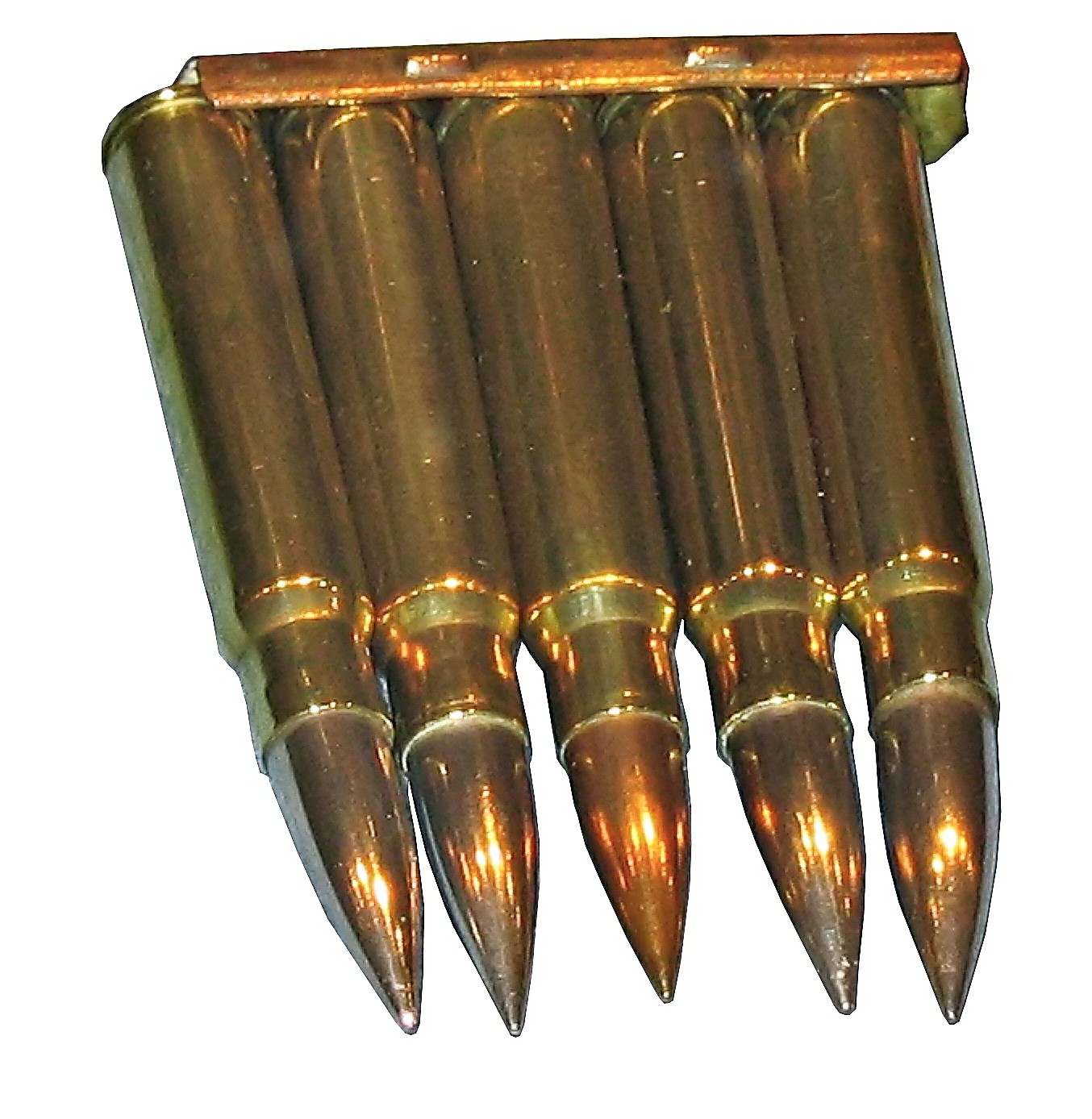 German WW I 5 round stripper clip with 7.92x57mm IS ammunition for the German Mauser Gewehr 98 rifle (in coll. Mémorial de Verdun).